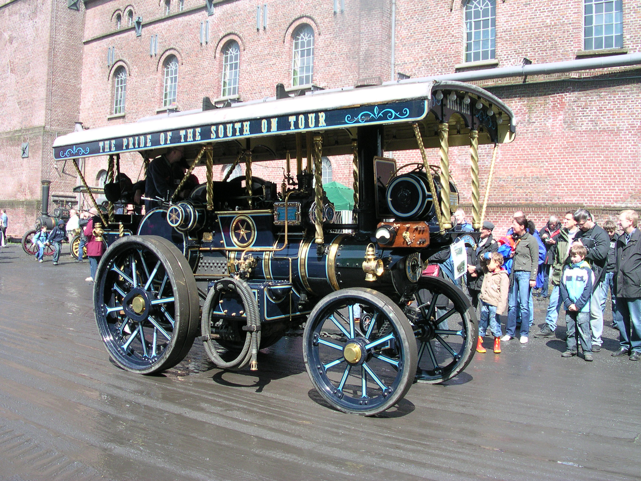 5th steam festival in Bochum, Germany 2007. Former Richard Garrett & Sons traction machine, built 1913